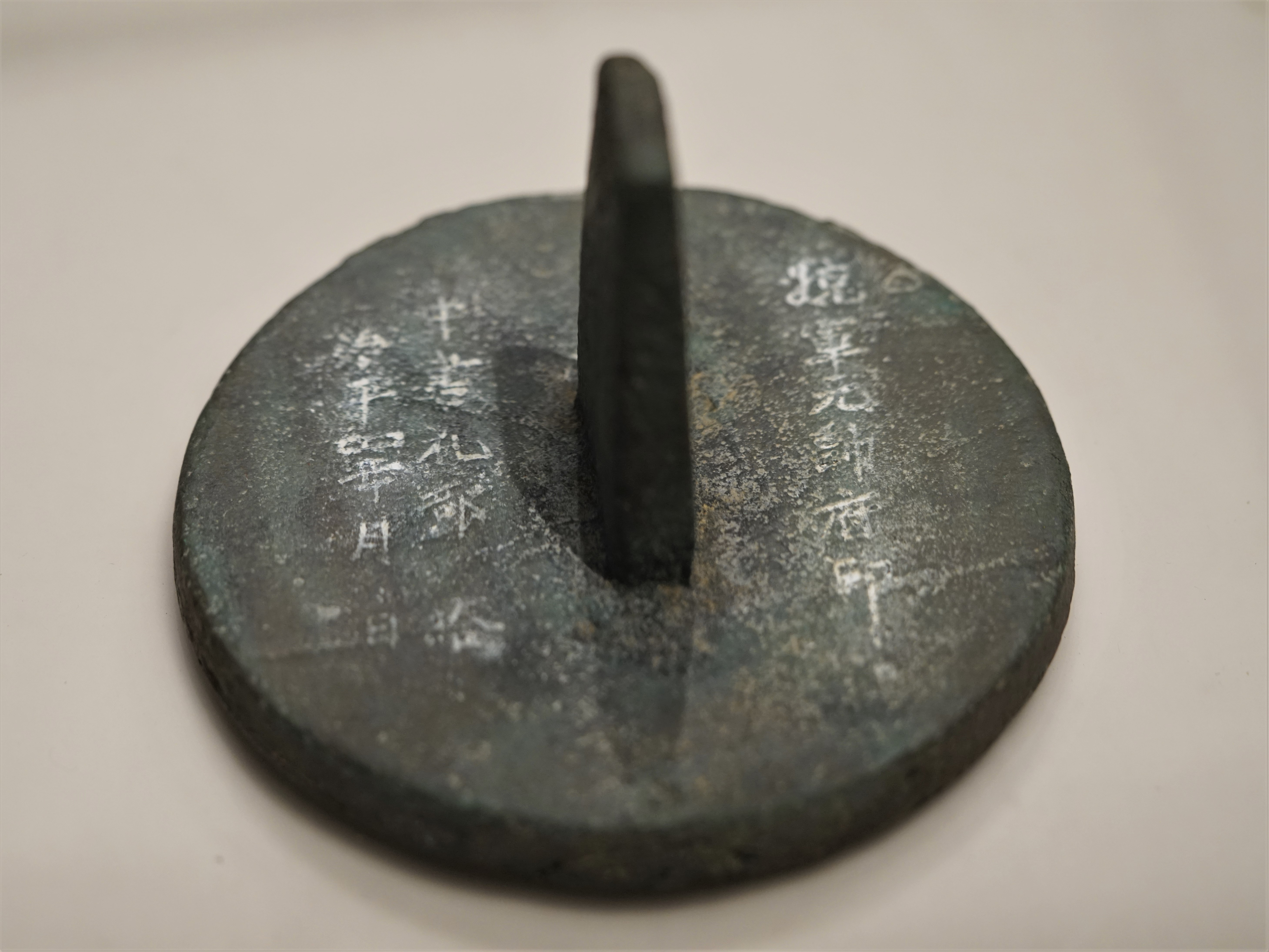 Mansion seal of the military commander Xu Shouhui. Yuan Dynasty.